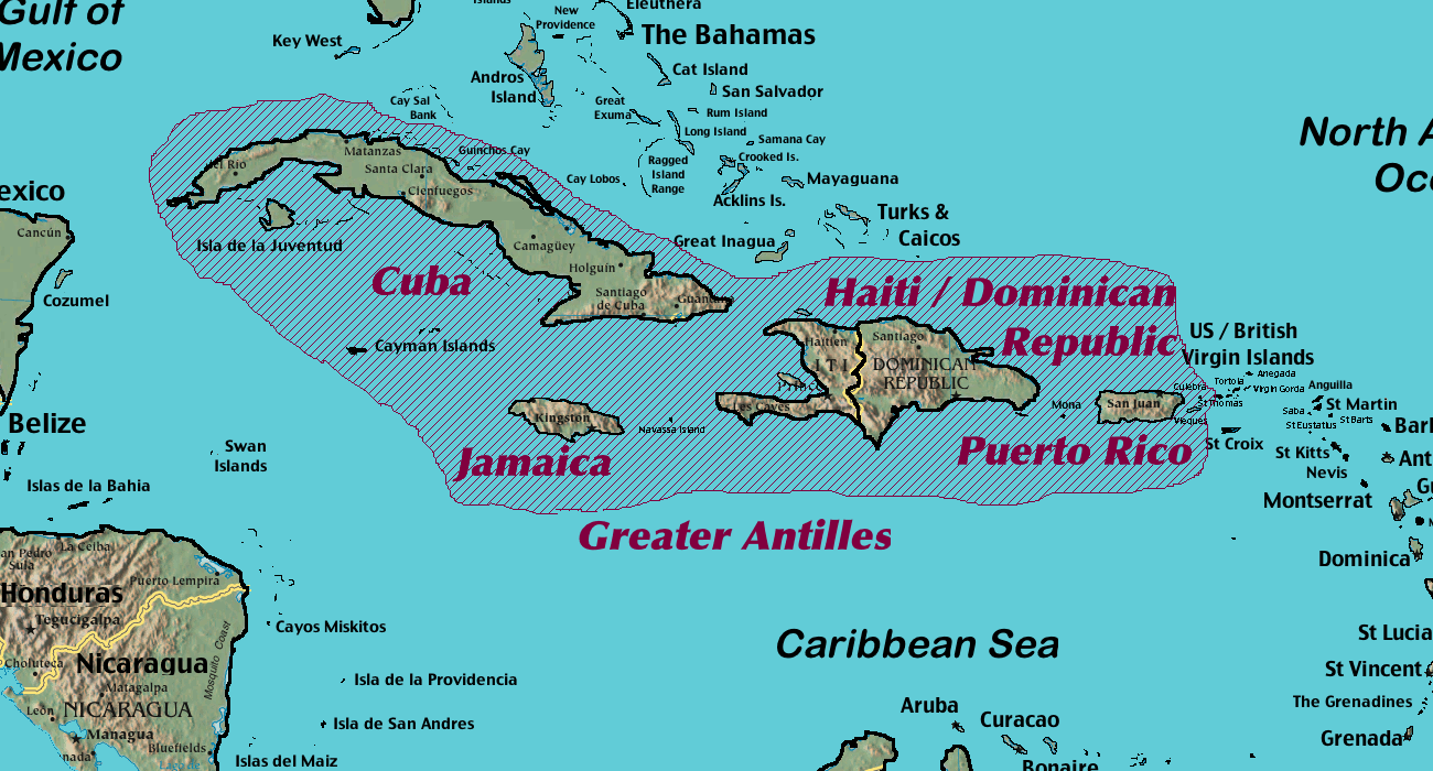 Self modified from